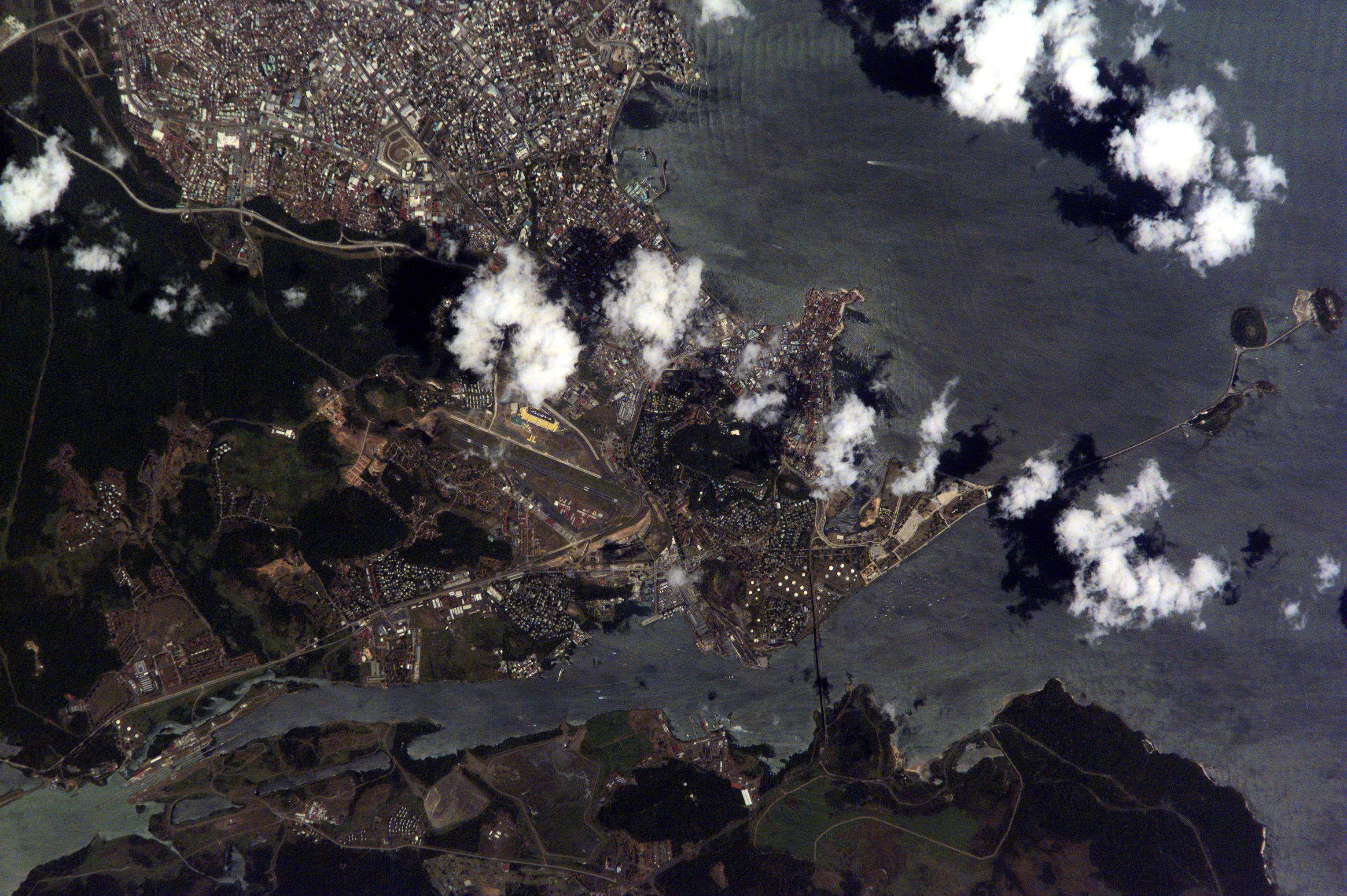 Panama City Panama Canal and crossed the Bridge of the Americas.